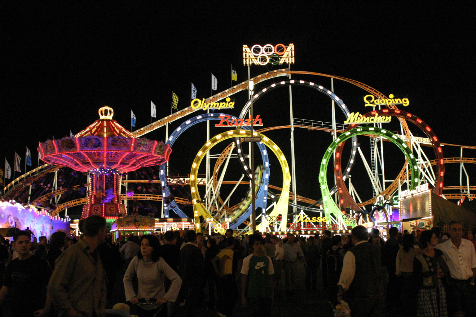 Oktoberfest München, Olympia looping and chairoplane by night